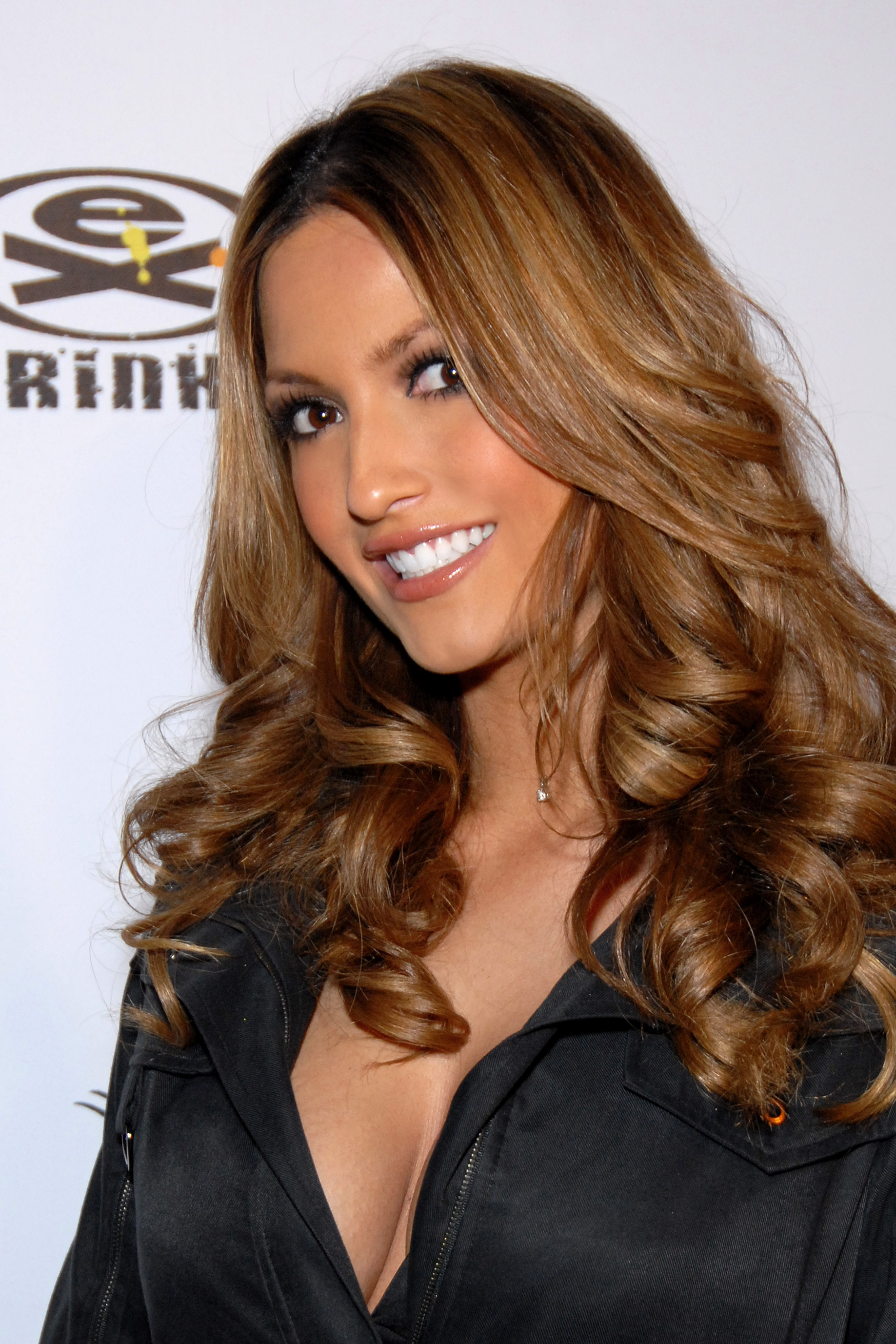 Heidi Cortez attending the "Sunset Tan" Holiday Party at Area, Hollywood, CA on 12/21/2007 - Photo by Glenn Francis of